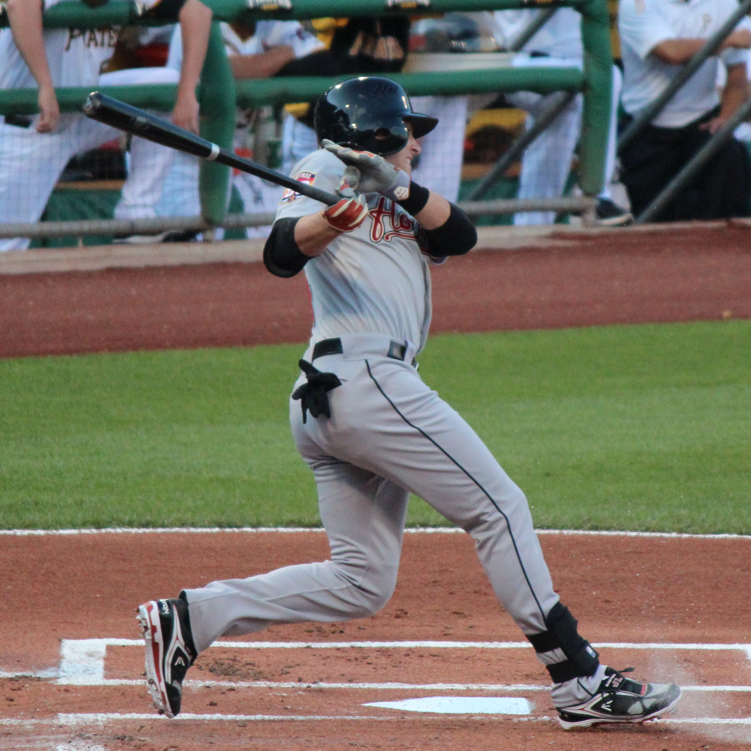 Jed Lowrie